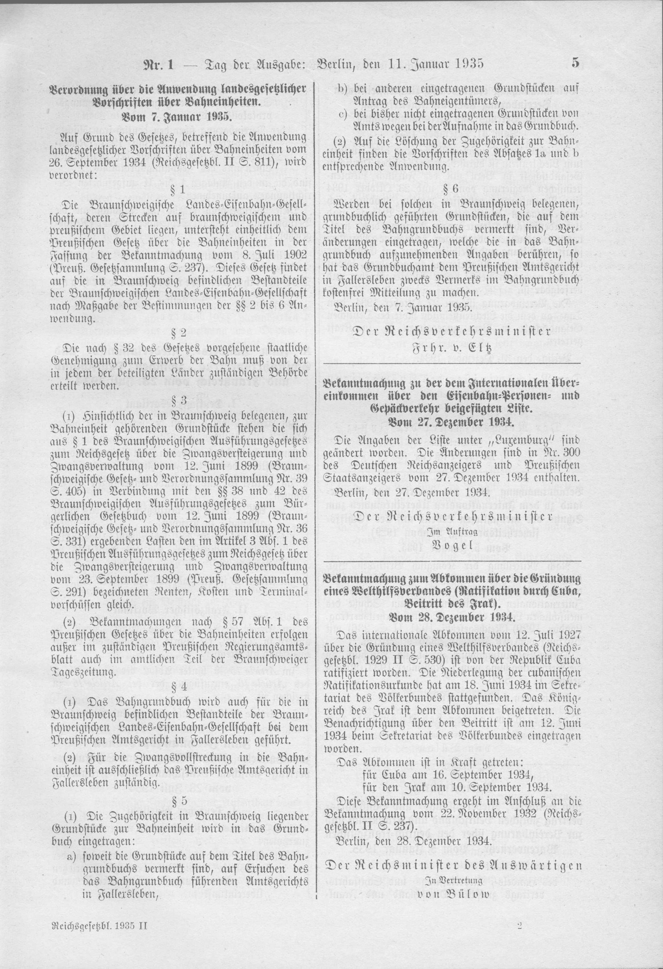 Scan from the Imperial Law Gazette of Germany, 1935, part 2